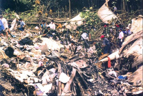 The aft fuselage of Flight 152, which was destroyed by the impact